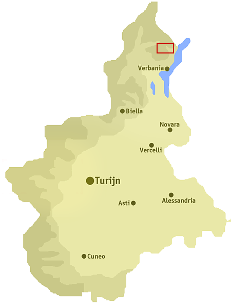 Position of the valley Val Cannobina